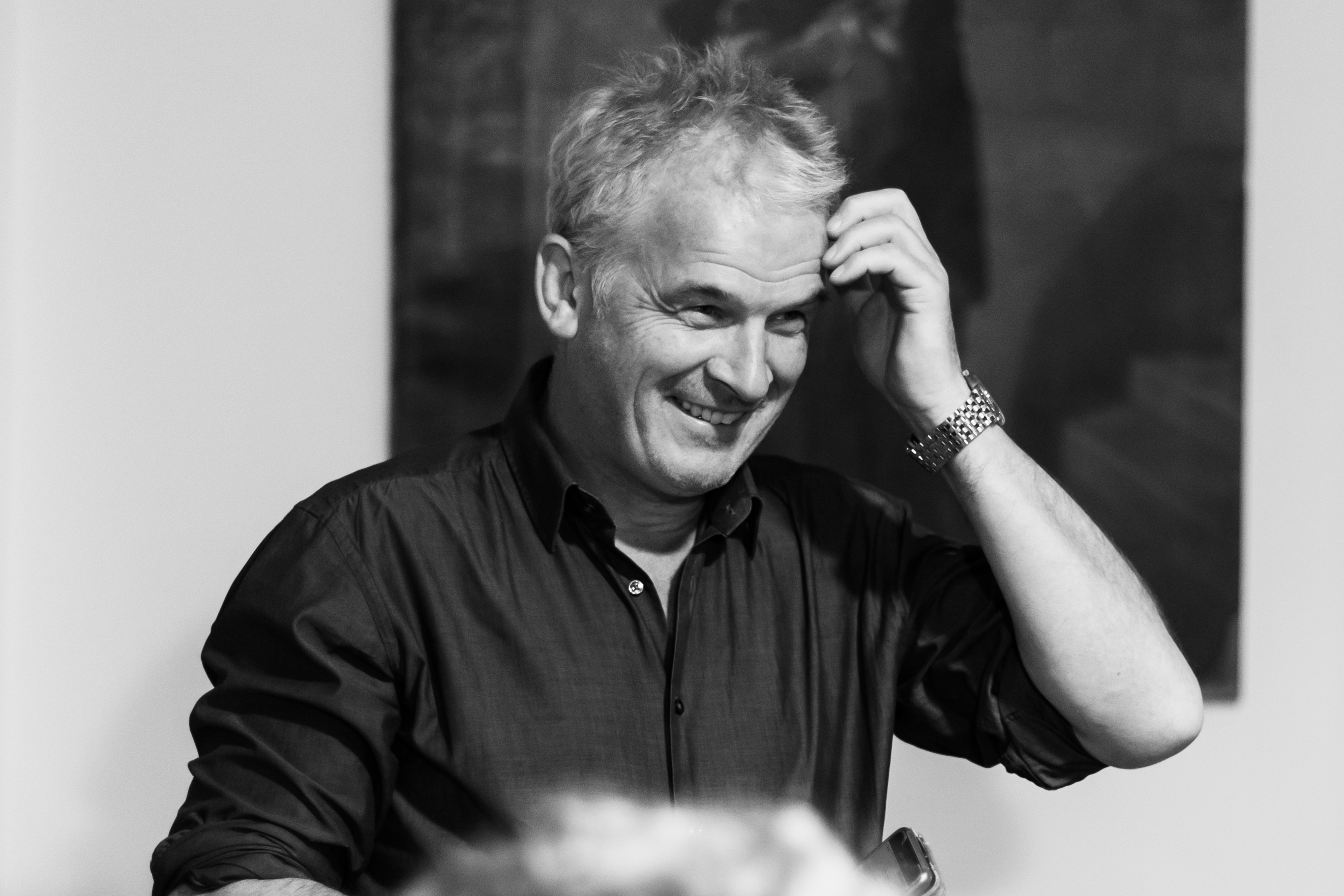 Volker Schmidt-Sondermann bei Dreharbeiten zu „Triff... Beethoven“ 2019